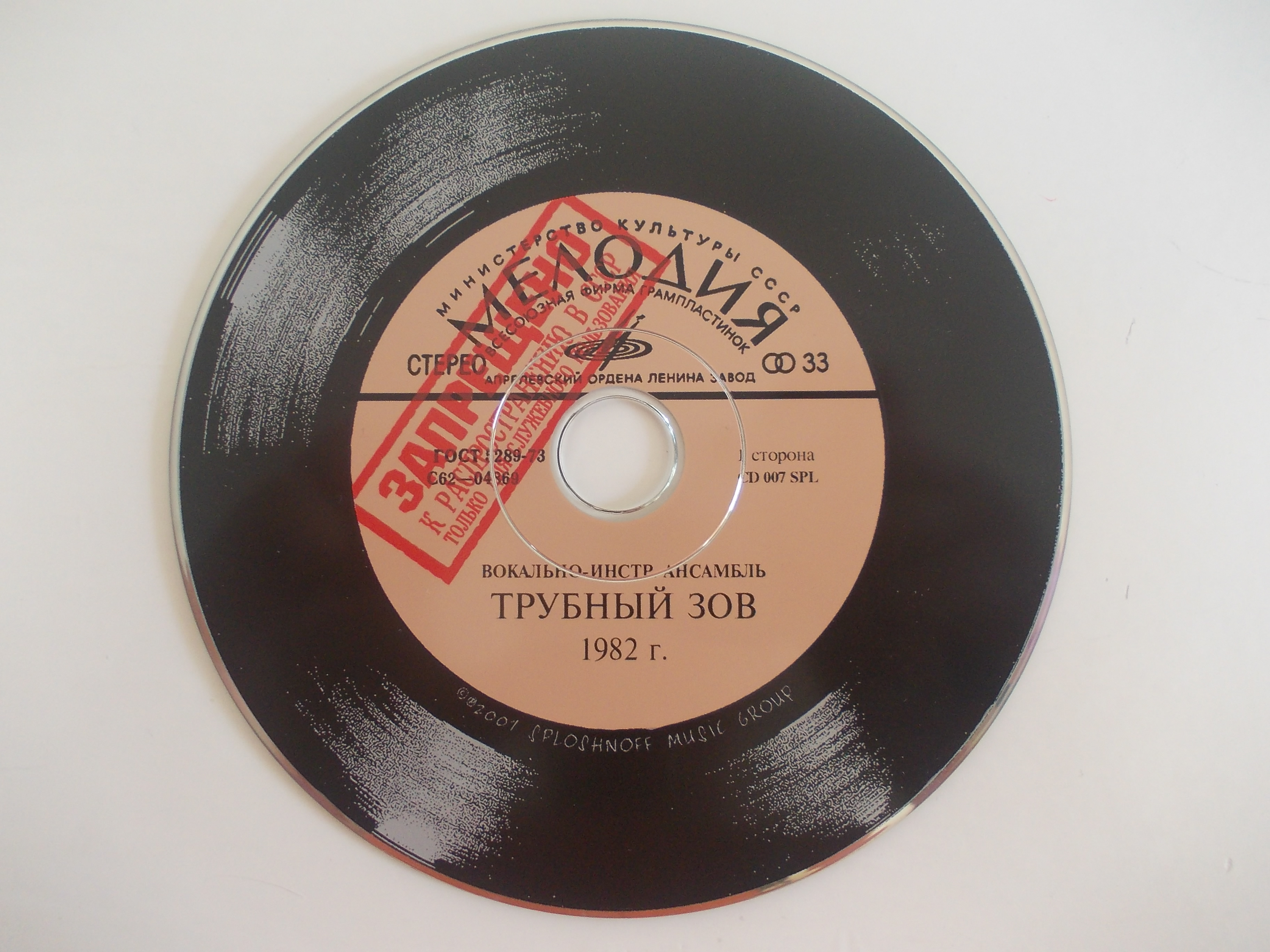 the record